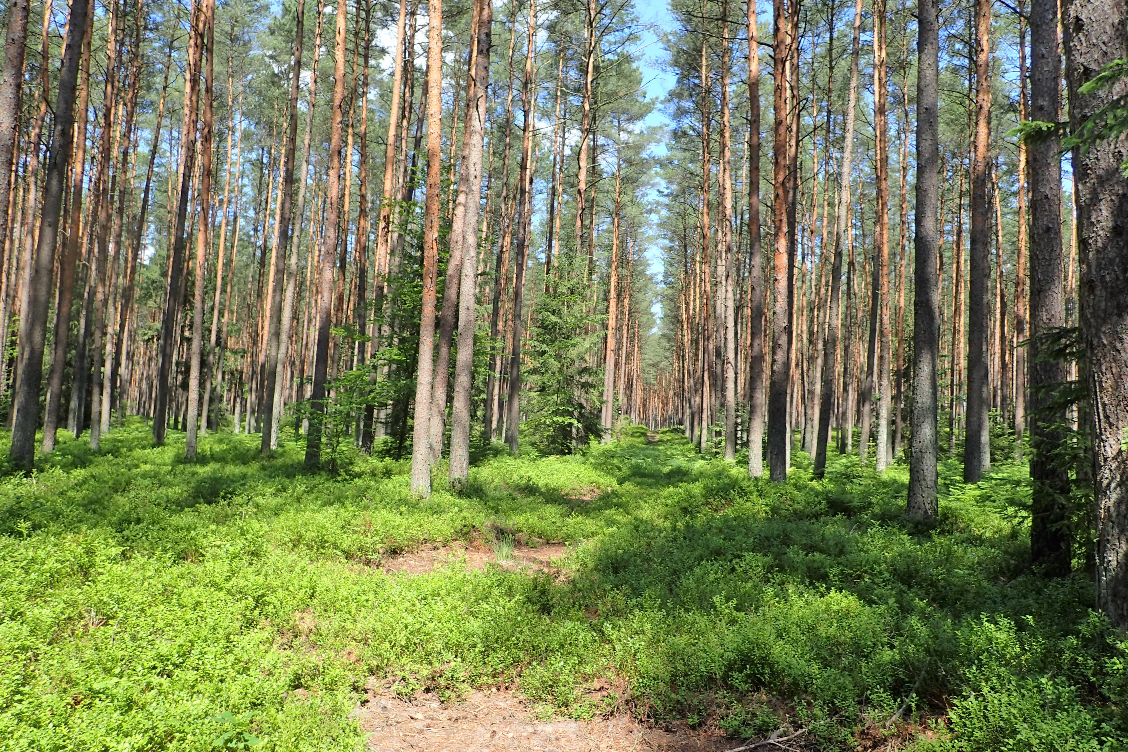 Cutline between forest divisions in pine forest in Nowogard Forest Inspectorate, vicinity of Czermnica, NW Poland